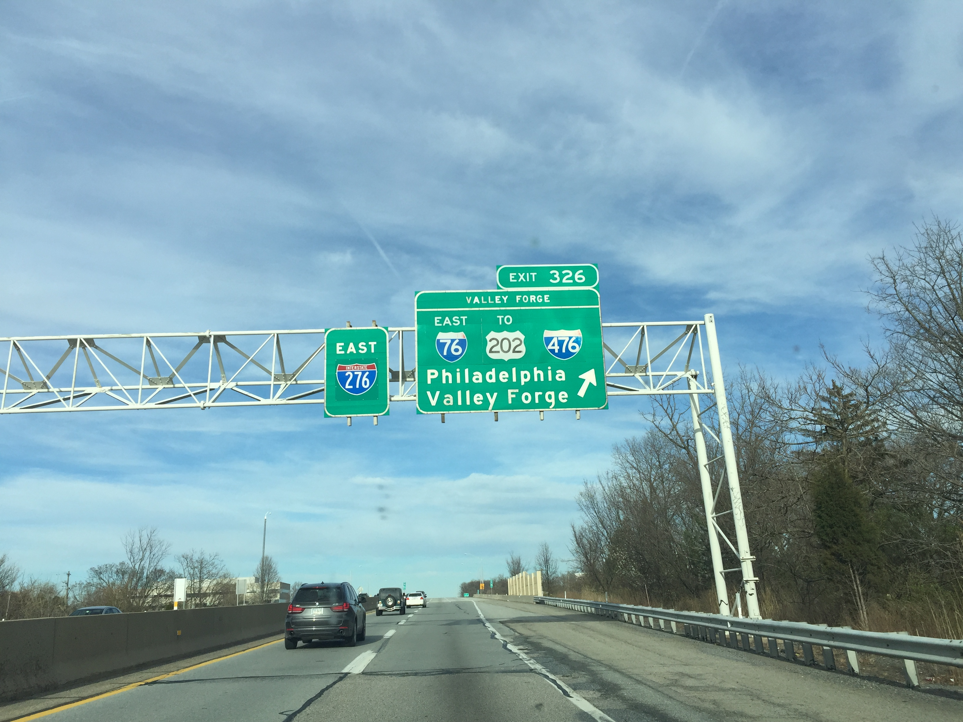 I-76 pa Turnpike exit 326